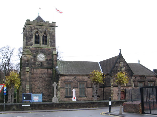 Christ Church parish church, Ironville, Derbyshire, seen from the south